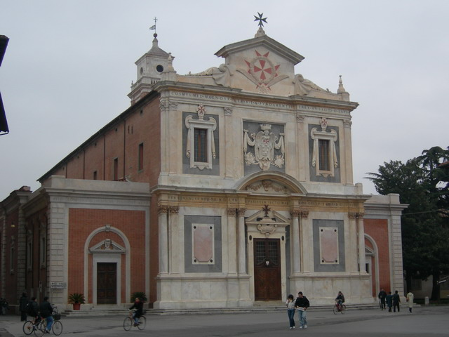 Church of the Knights of the Holy and Military Order of St. Stephen in the Knights' Square (Pisa), Italy.